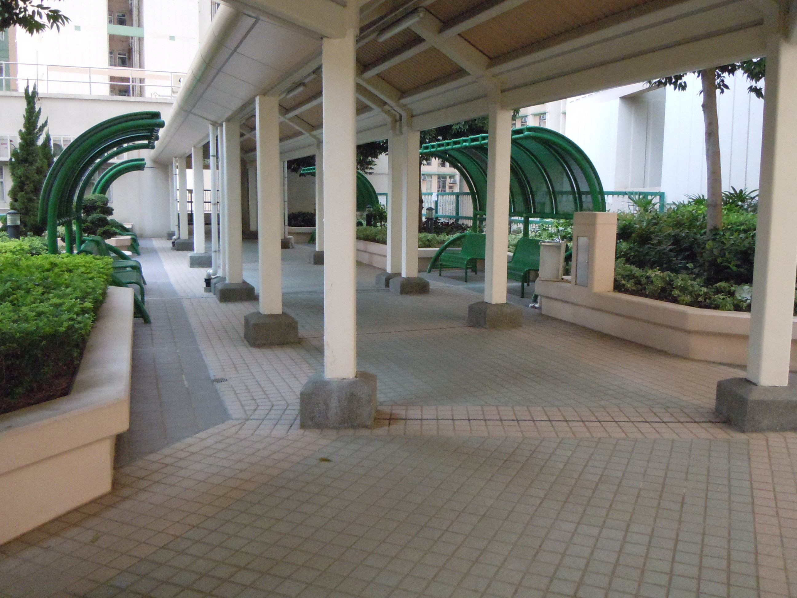 Lei On Court Garden